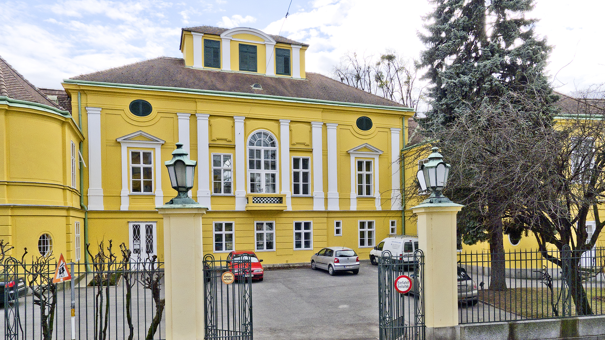 Palace Maria-Theresien-Schlössel (Wien Hofzeile) in Vienna Döbling